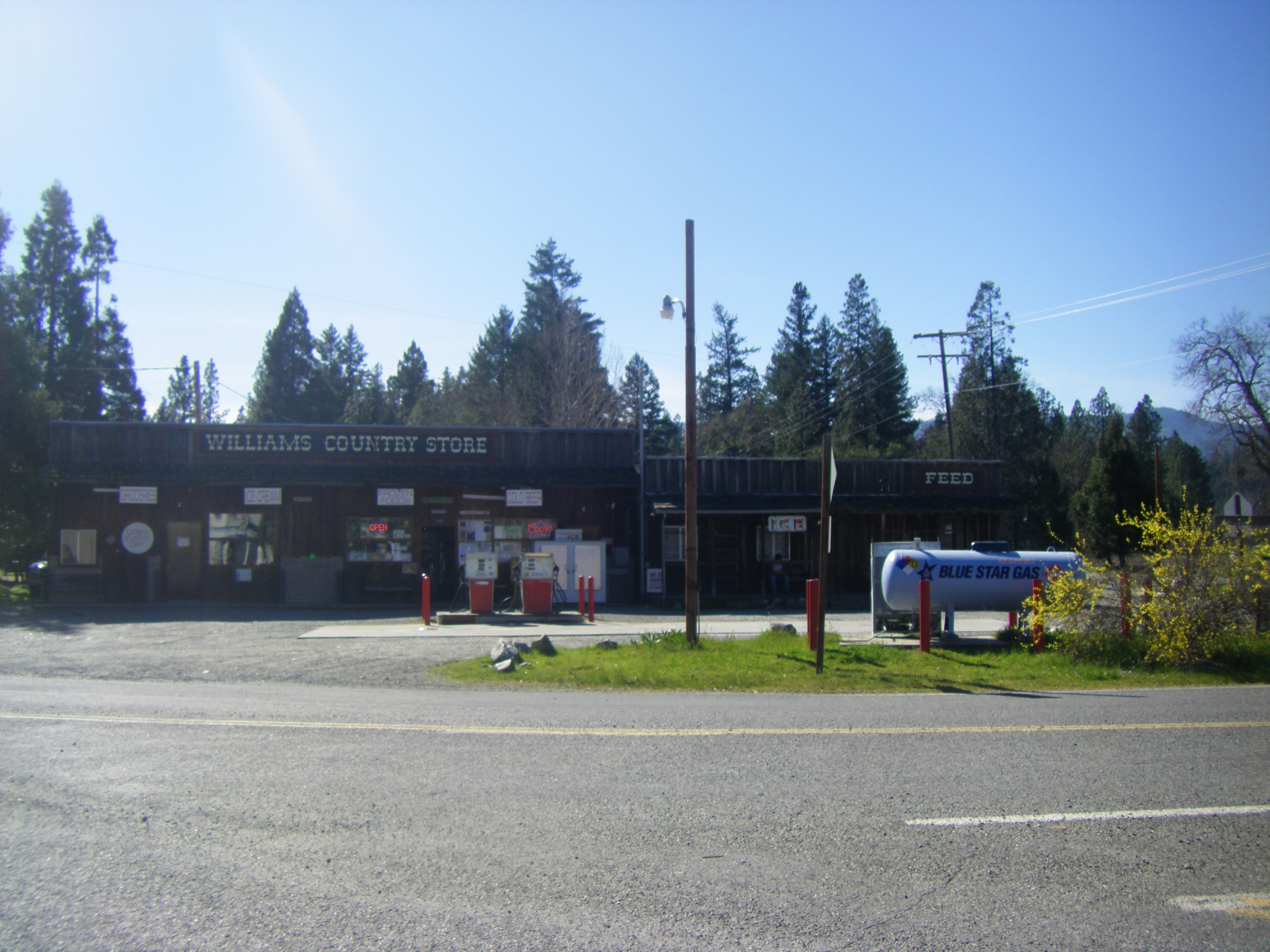 The Williams Country Store in Williams, Oregon at the intersection of East Fork Rd, Cedar Flat Rd, and Williams Hwy.